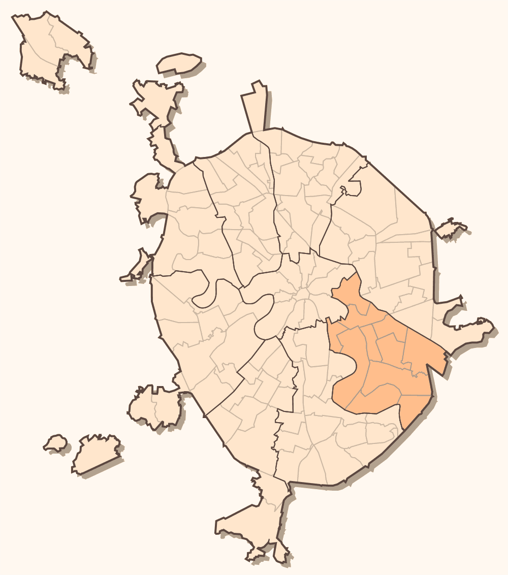 Moscow districts map